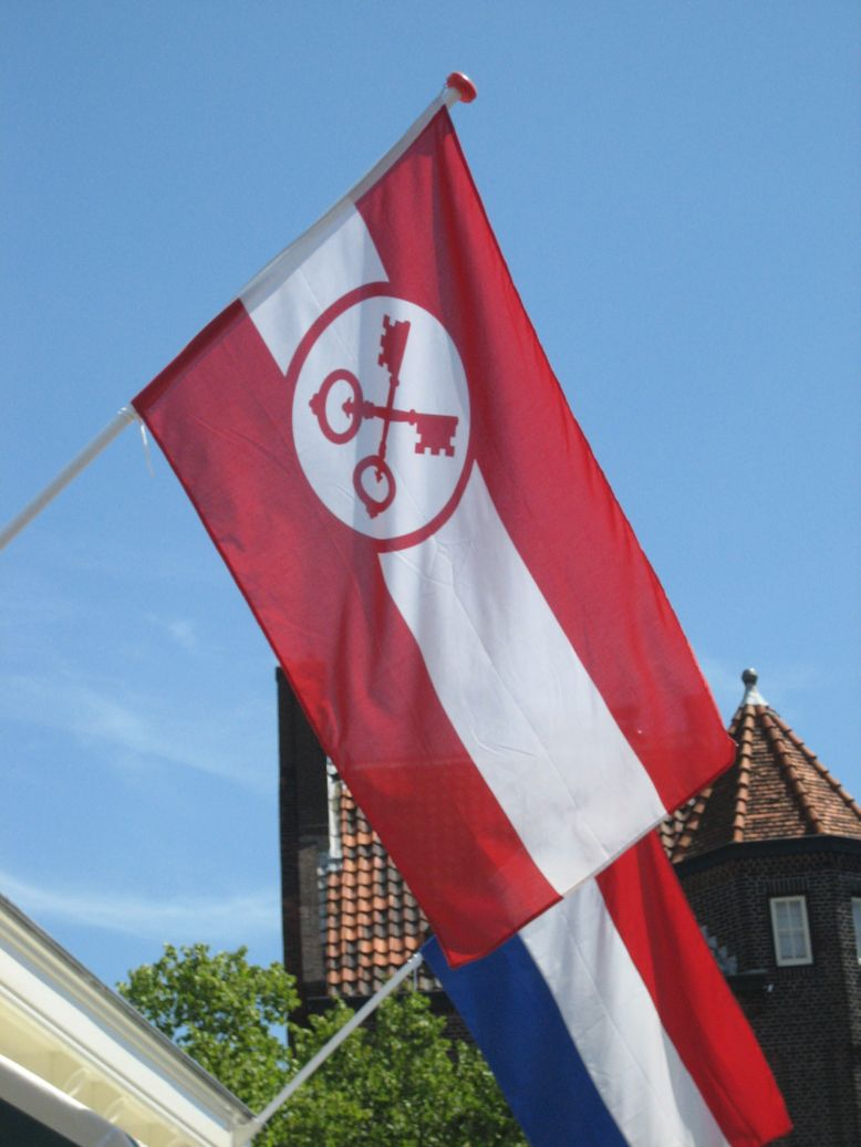 Flag of the city of Leiden (The Netherlands), with the flag of the Netherlands behind. Picture taken by Enrique Boira Freire (user:Enboifre) in Leiden (in the Blauwpoortsbrug), on the 15th of July, 2006.